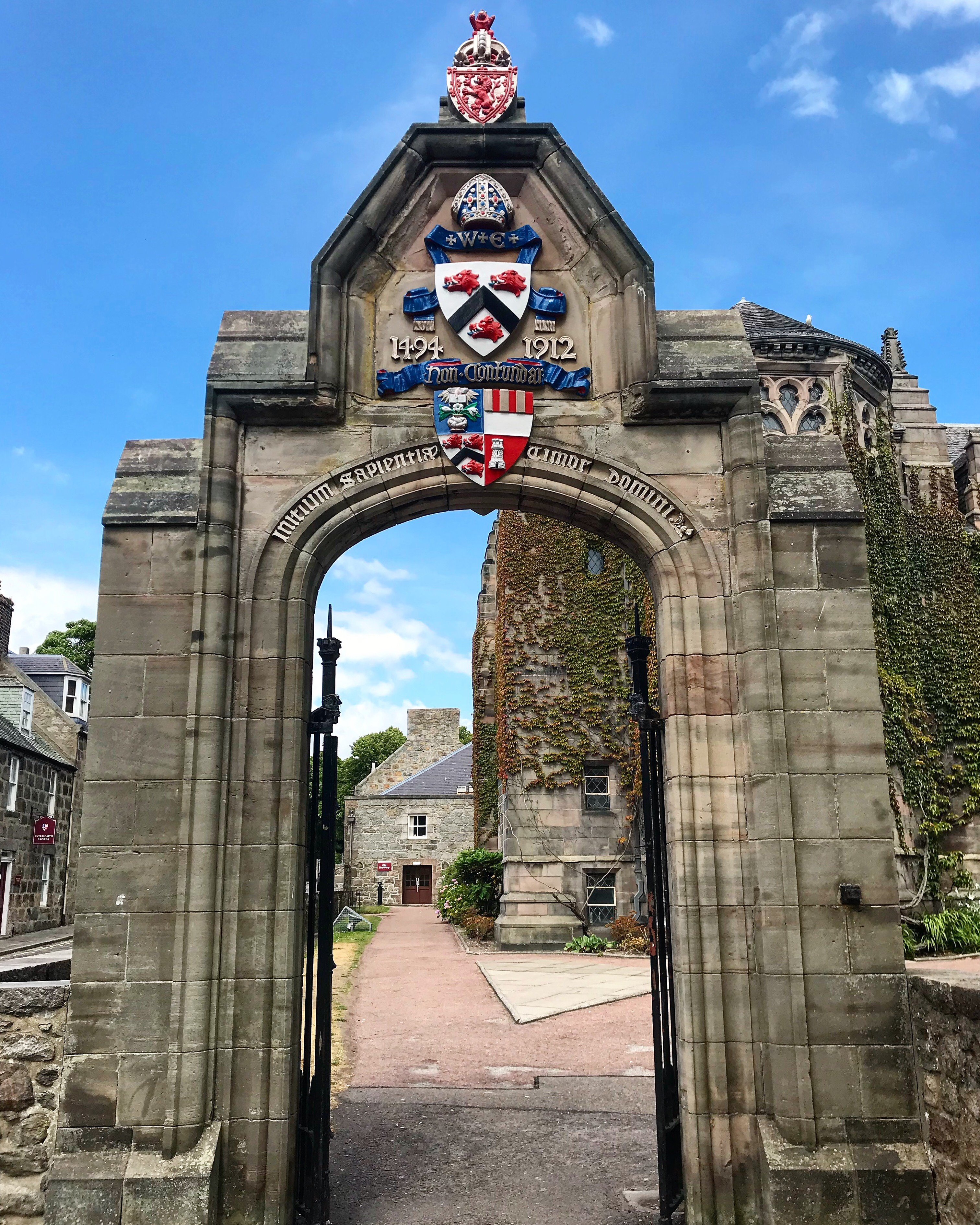 Old aberdeen, entry archway, latin motto, new king's, university of aberdeen